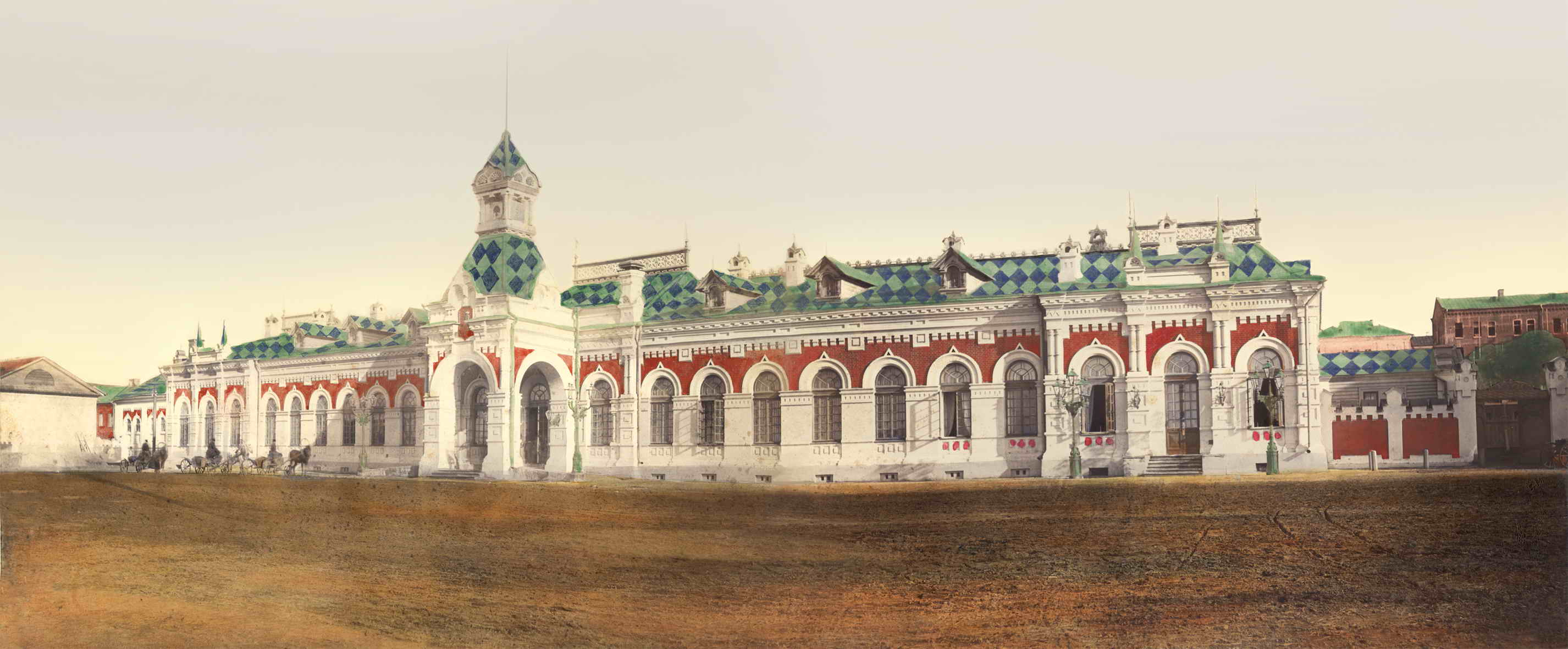 Perm I Train Station